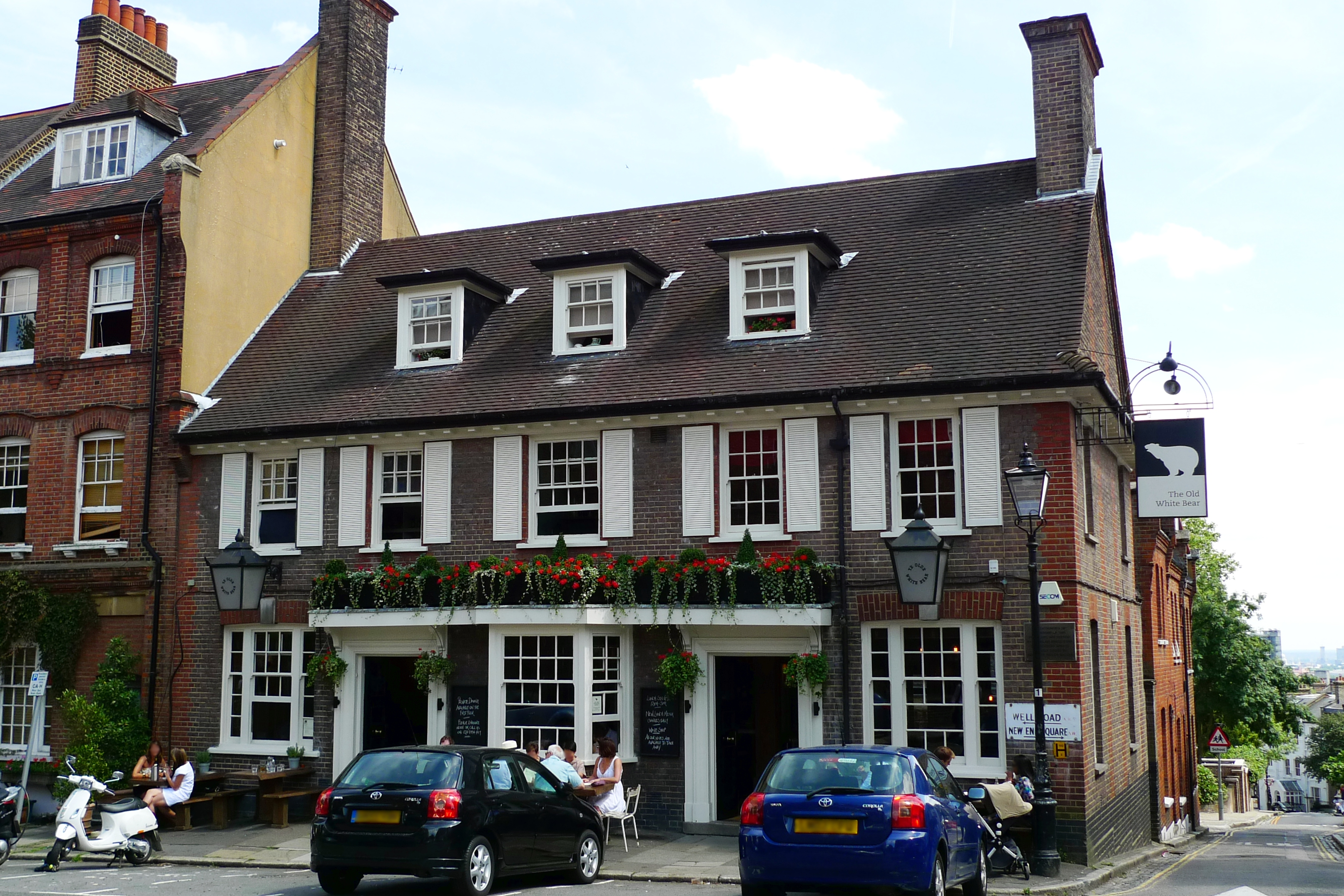 This was a lovely homely pub and as such in the Good Beer Guide, but has since been refurbished. Every indication is that it's not as good. (Photo of it as Ye Olde White Bear.) Address: 1 Well Road. Former Name(s): Ye Olde White Bear; The White Bear. Owner: Punch Taverns; Taylor Walker (former). Links: Randomness Guide to London Fancyapint Pubs Galore Beer in the Evening Dead Pubs (history)